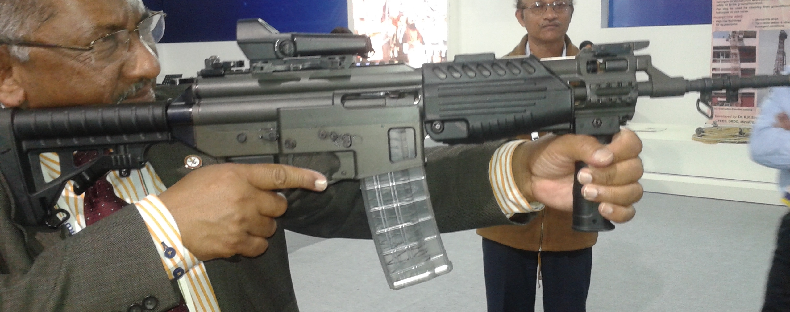 DRDO Multi Caliber Rifle